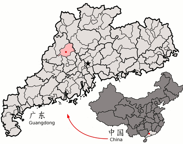 Location of Guangning district (pink) and its centre Nanjie within Guangdong province of China